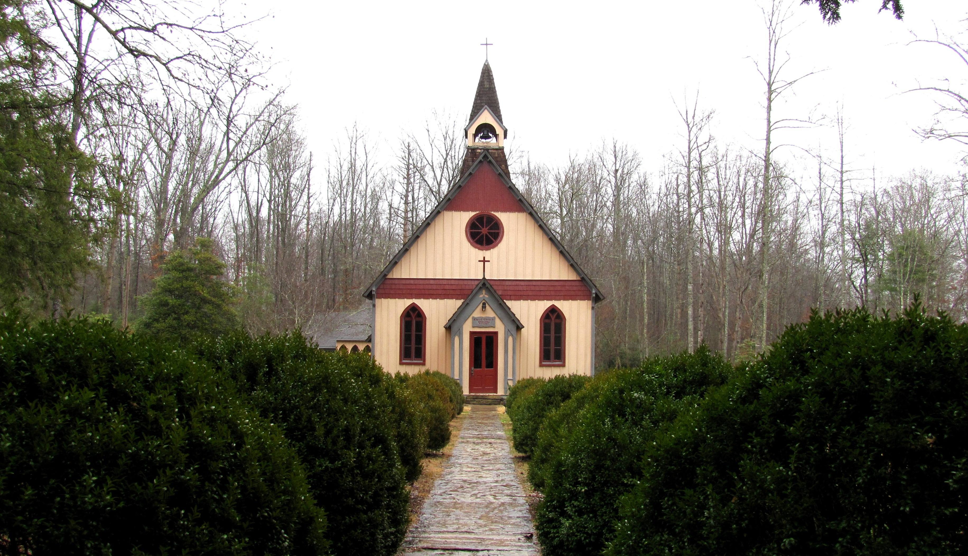 Christ Church Episcopal, built by Rugby colonists in the 1880s, in Rugby, Tennessee, USA.